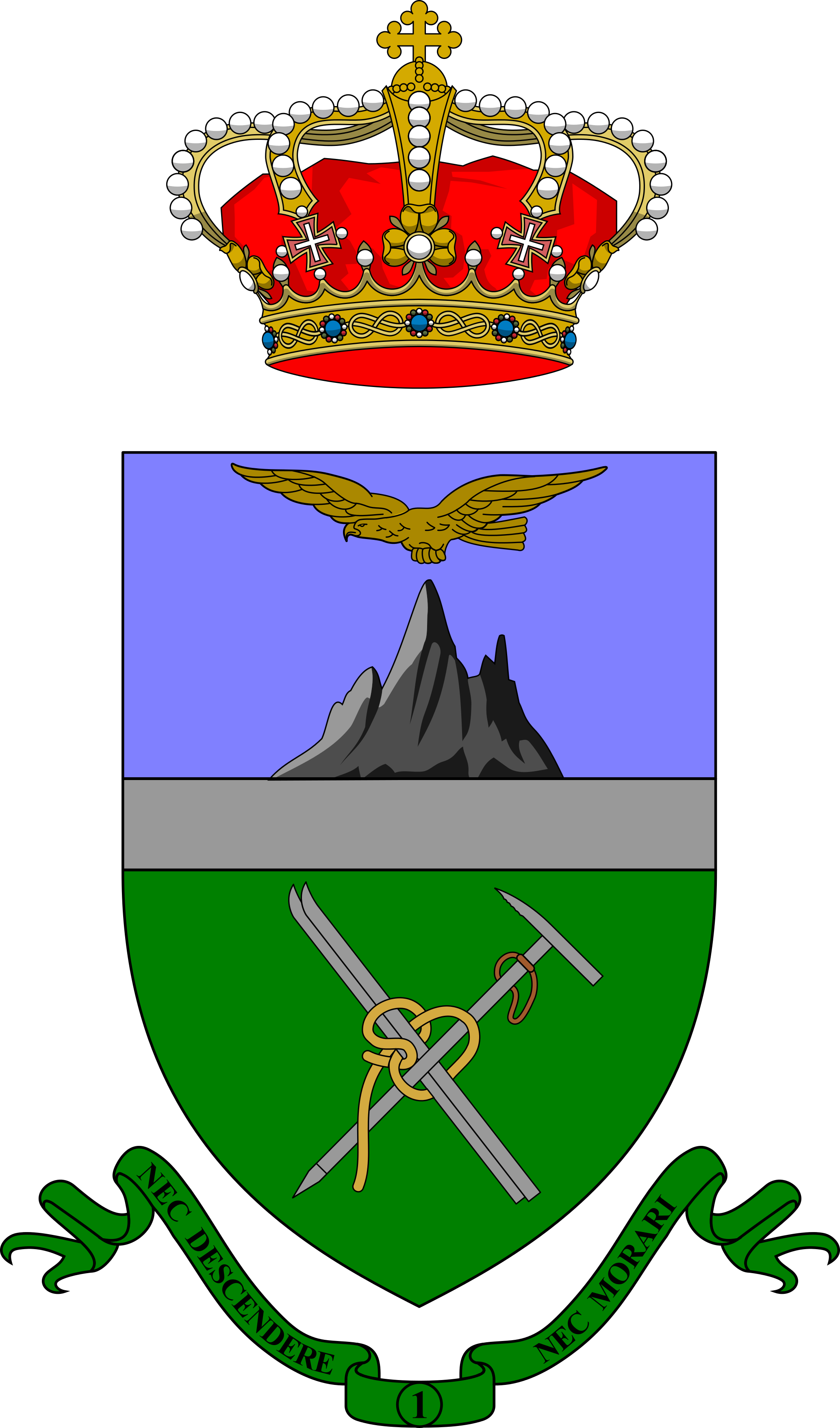 Coat of Arms of the 1st Alpini Regiment, Royal Italian Army, 1939 - Royal Crown by user F l a n k e r, released to public domain (see File:Crown of Savoy.svg) - Eagle modified from artwork by user F l a n k e r (see File:Coat of arms of the Italian Air Force.svg)